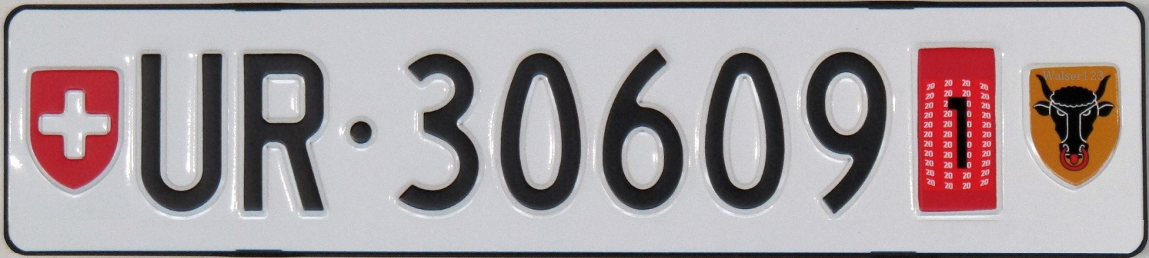 Temporary license plate of Switzerland (Uri)